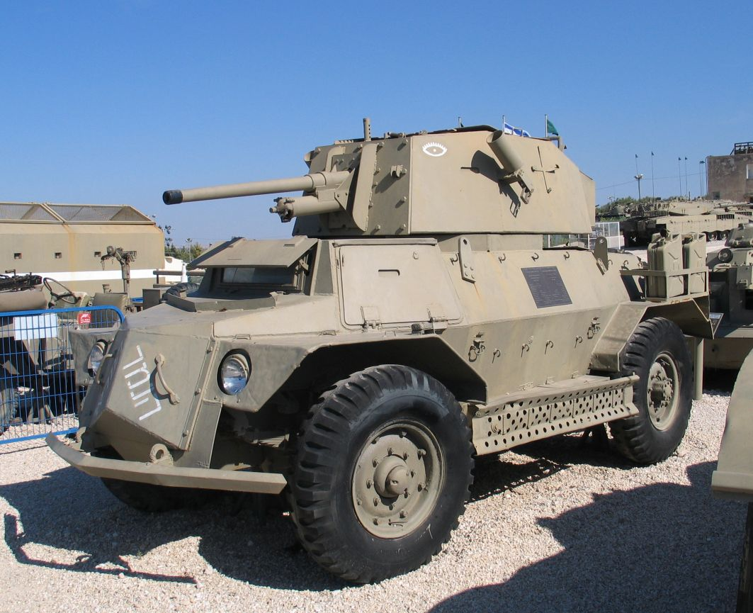 Description: Marmon-Herrington Armoured Car MkIVF in Yad la-Shiryon Museum, Israel. 2005. Source: Photo by me, User:Bukvoed.